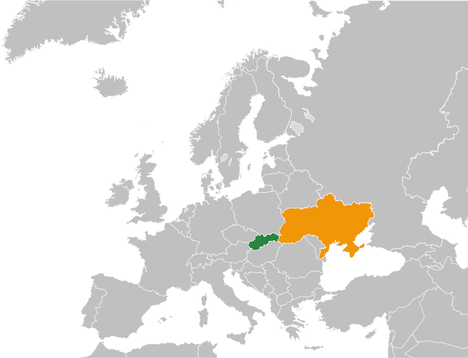 Blank map of Europe